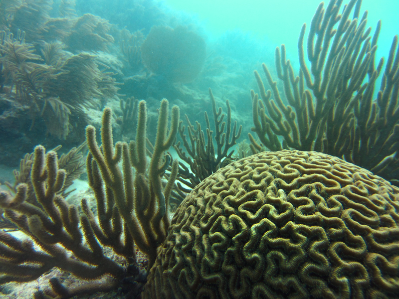 This is a small node of fairly healthy Diploria strigosa, just off the coast of Key West, FL. Even under the strain of toxic pollution abundant in our ocean, Diploria still seems to thrive in the near shore waters of the keys.